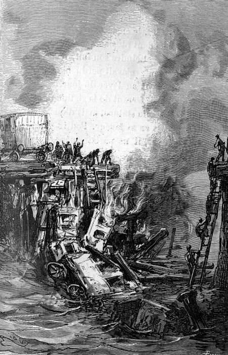 An ilustration from the novel "In Search of the Castaways; or Captain Grant's Children" by Jules Verne drawn by Édouard Riou.